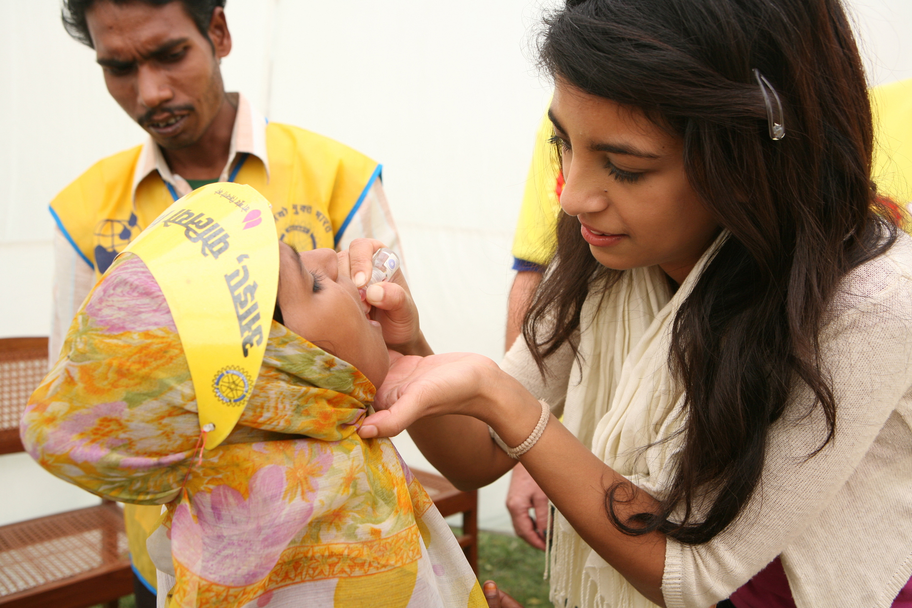 Konnie Huq in Lucknow during the November Immunization days in Northern India..India has been engaged in a campaign to eradicate polio in India which target the high-risk area of Uttar Pradesh and Bihar with polio immunization drives every 2 months. (photo Jean-Marc Giboux)